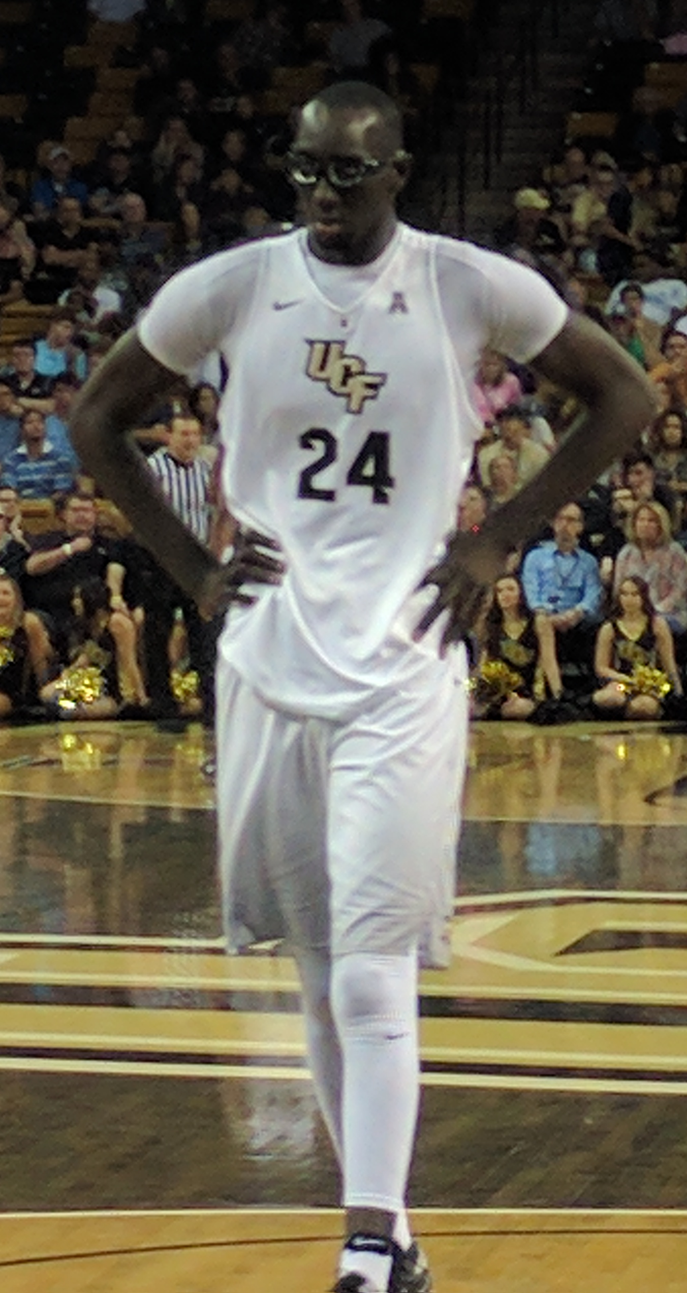 Depicted person: Tacko Fall – Senegalese basketball player